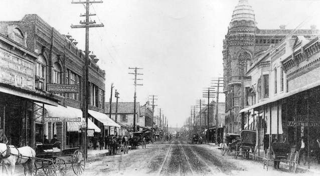 Ryan Street, Lake Charles, Louisiana. View looking north, 1903.